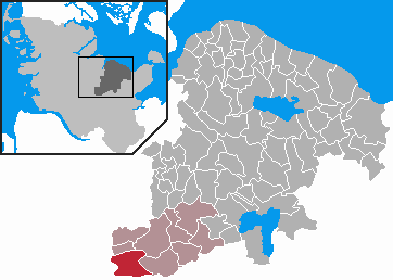 This map shows the area of the Gemeinde (municipality) Bönebüttel in the Kreis (district) Plön, Schleswig-Holstein, Germany.